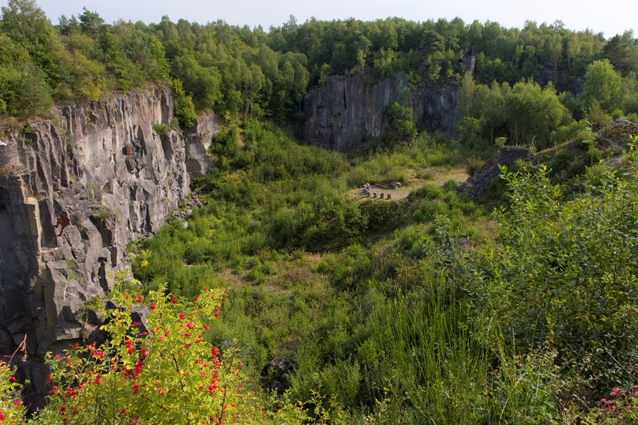 Ettringer Lay